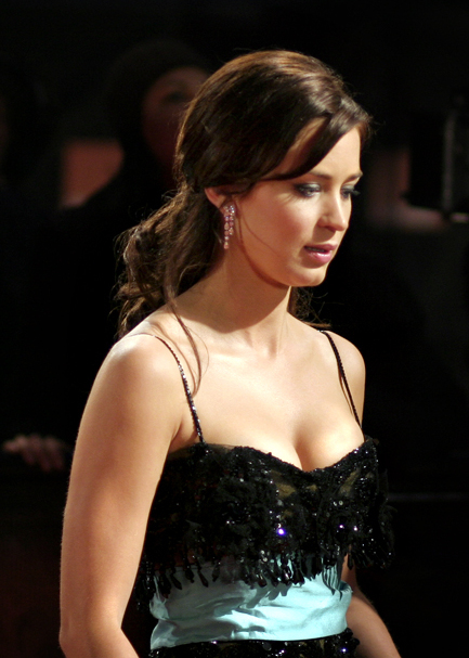 Emily Blunt at the Orange British Academy Film Awards in London's Royal Opera House